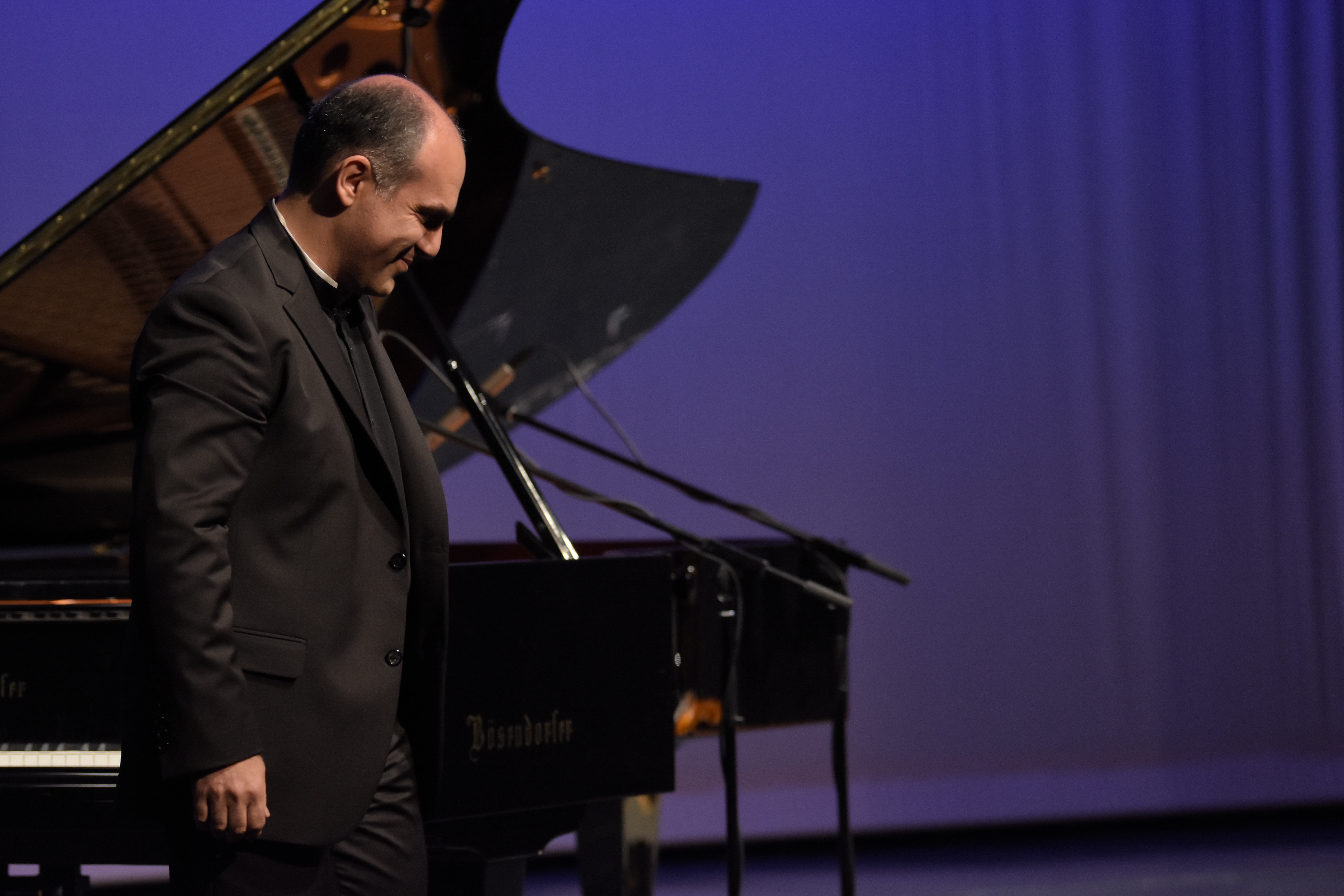 Bardi Sadrenoori Performing at Roudaki Hall 2018 "Homayoun Khoraam Music Hymns"